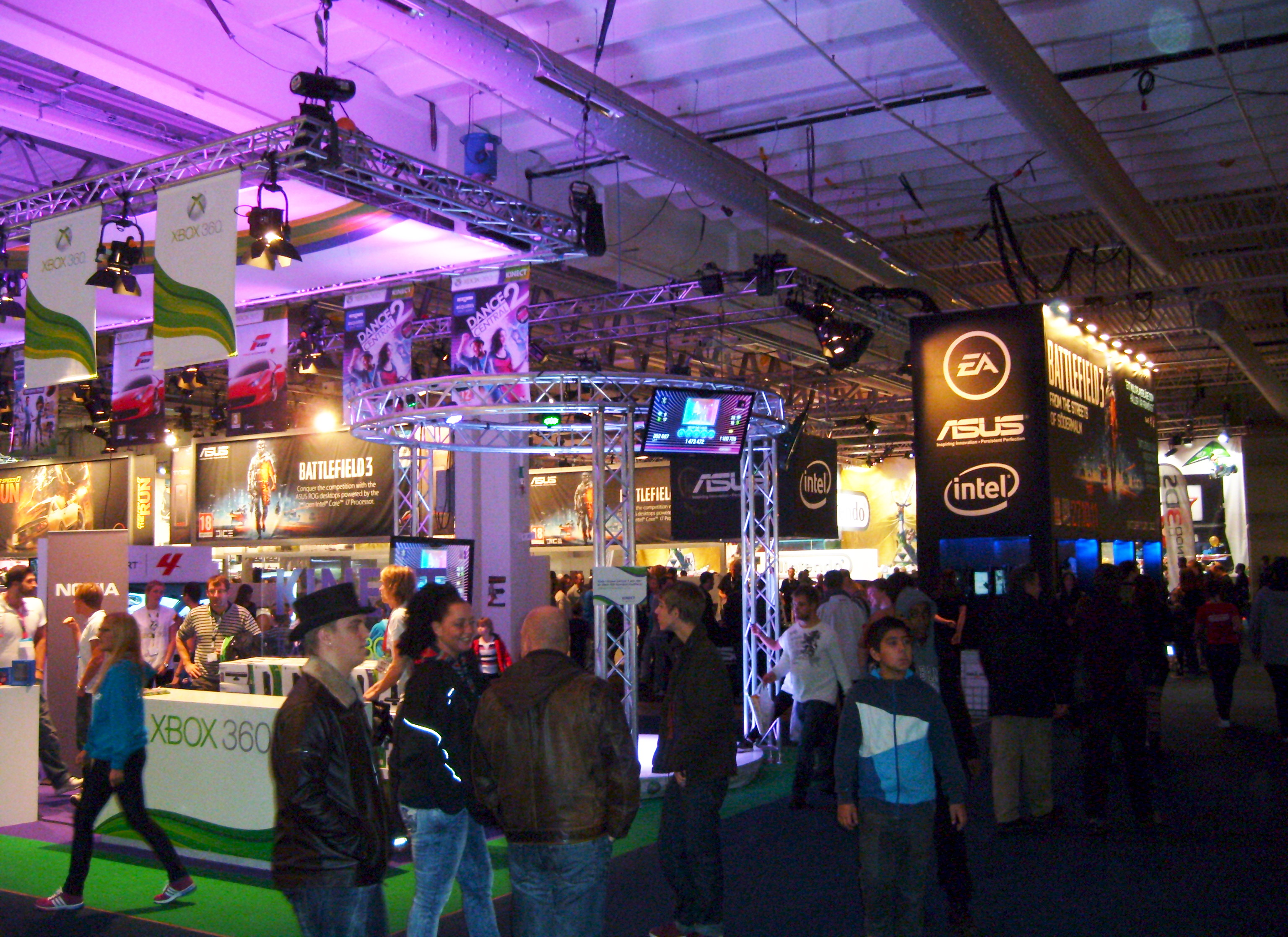 Gamex, video game expo at Kistamässan (The Kista Expo) in Kista outside Stockholm, Sweden.